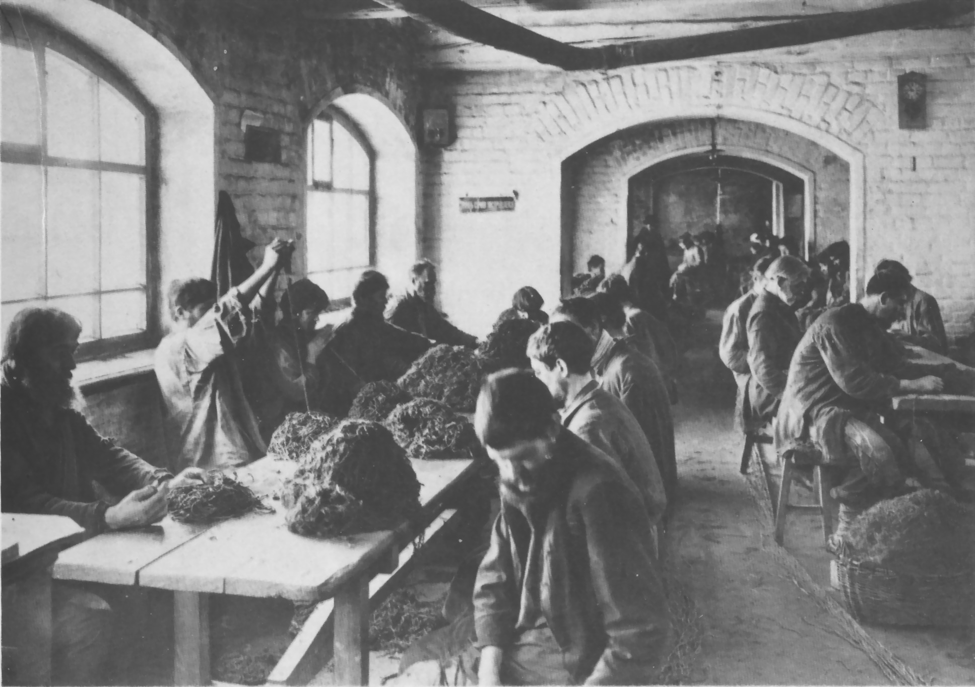 Rukavishnikov House of Diligence